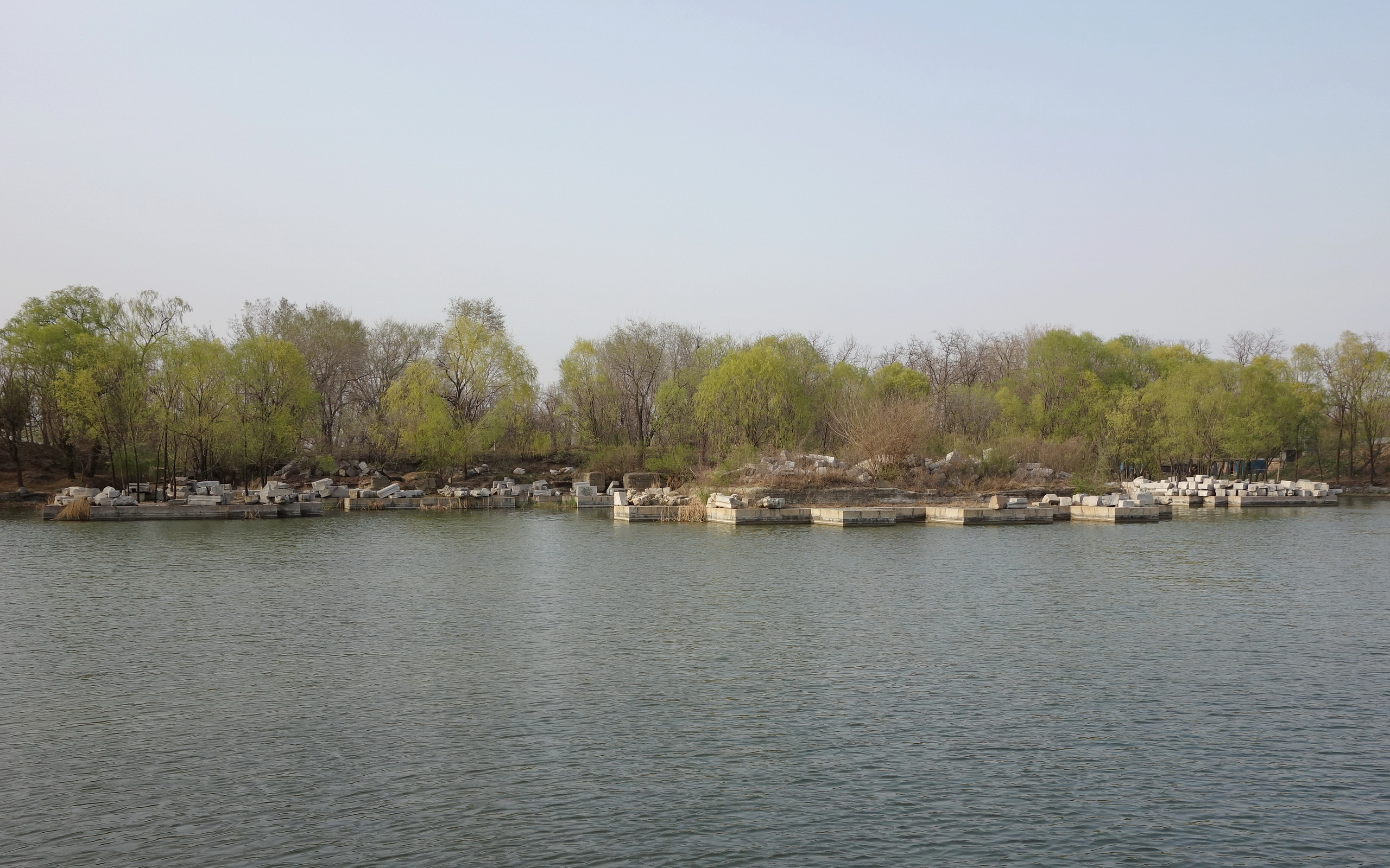 Ruins of Fanghu Shengjing.